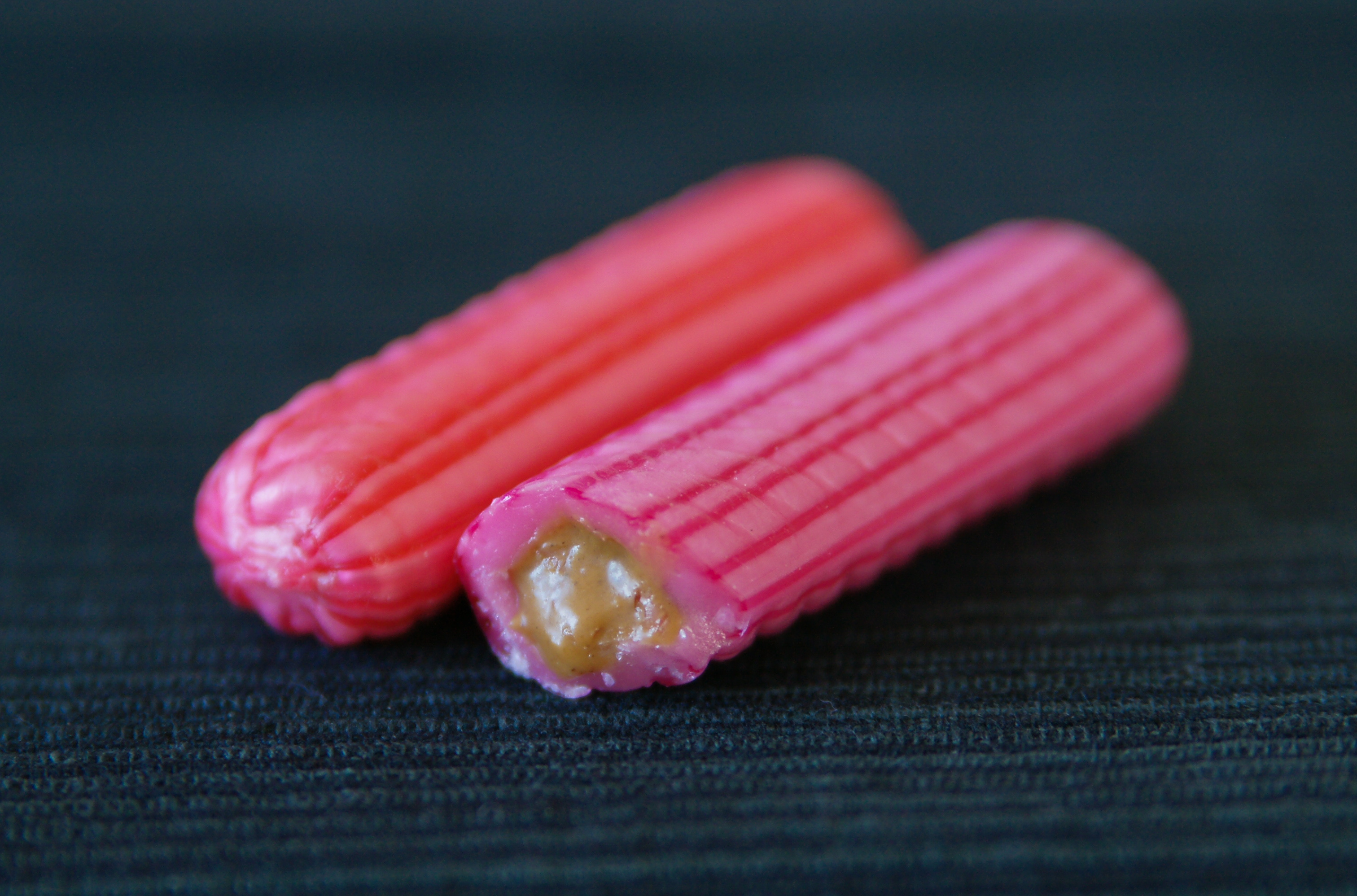 "Mässmögge", traditional specialty sweets from Basel, Switzerland. Made by Sweet Basel AG, Birsfelden, sold in Migros supermarkets.